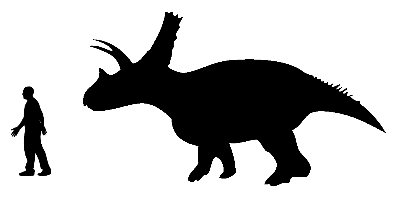 Size comparison of the derived chasmosaurine ceratopsian Titanoceratops and the human Andrew A. Farke.